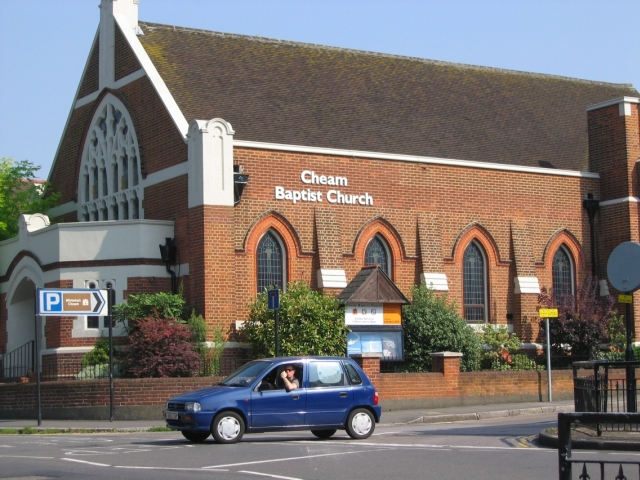 Cheam Baptist Church. Cheam Church is a outstanding large building dominating this corner of Cheam. With extensive halls and a large sanctuary.